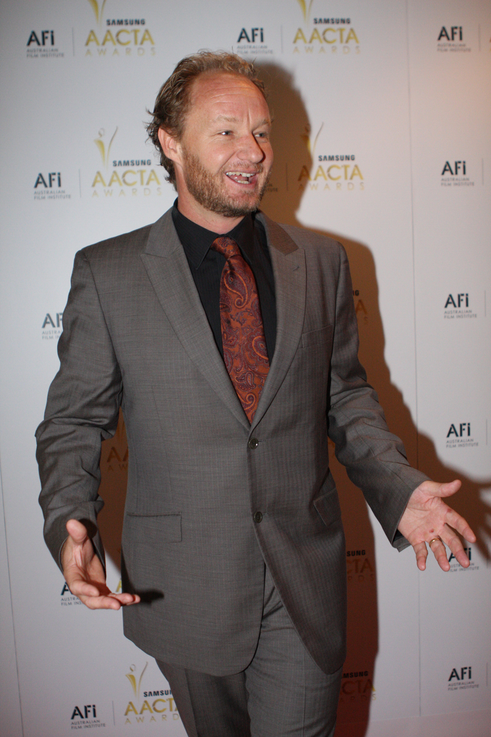 Rob Carlton, 2012, AACTA Awards Results From Sydney, Australia.